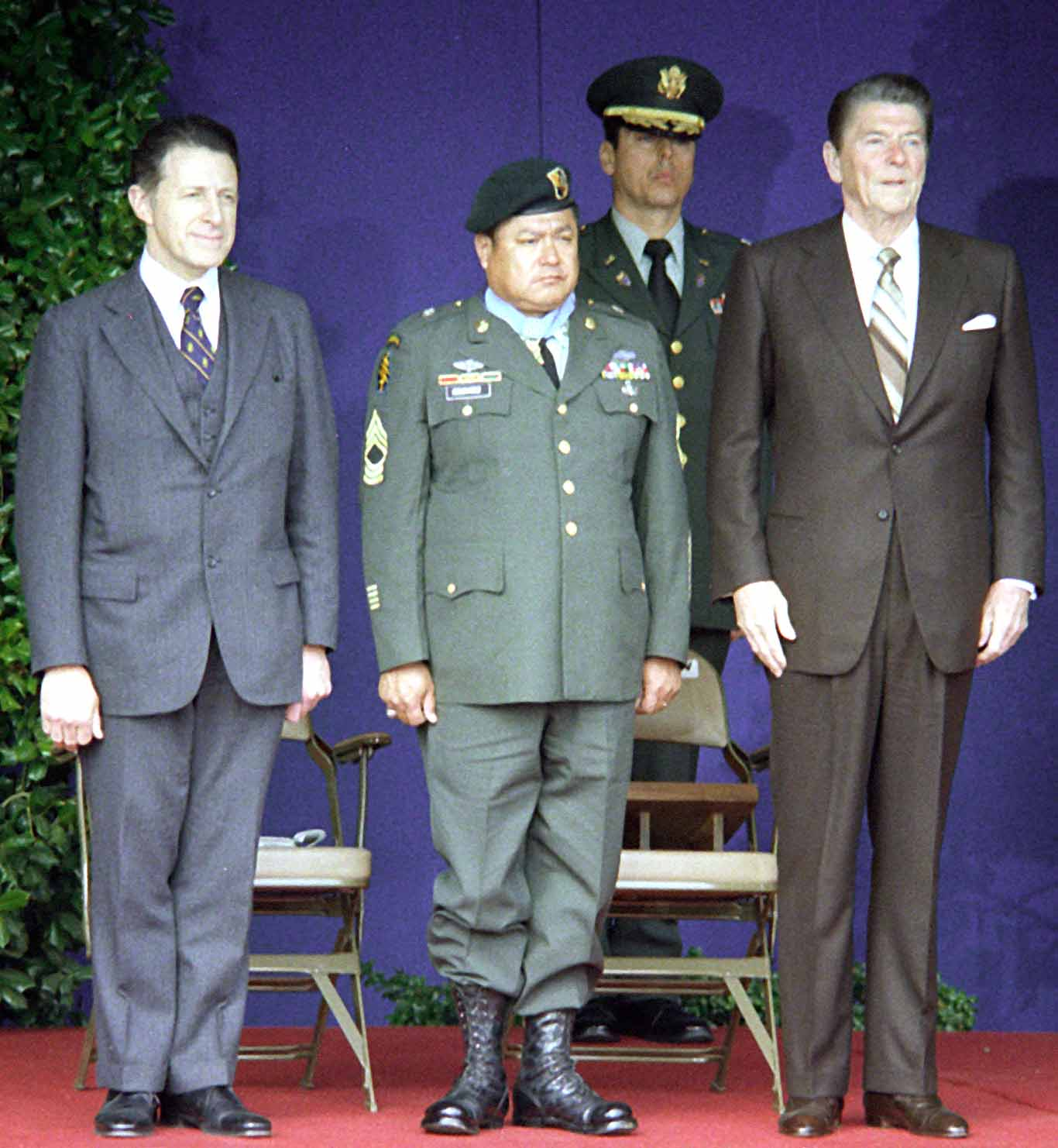 Army Master Sgt. Roy P. Benavidez (center) is flanked by Defense Secretary Caspar Weinberger (left) and President Ronald Reagan at his Medal of Honor presentation ceremony in 1981. The Special Forces soldier was cited for heroism in Vietnam in 1968.